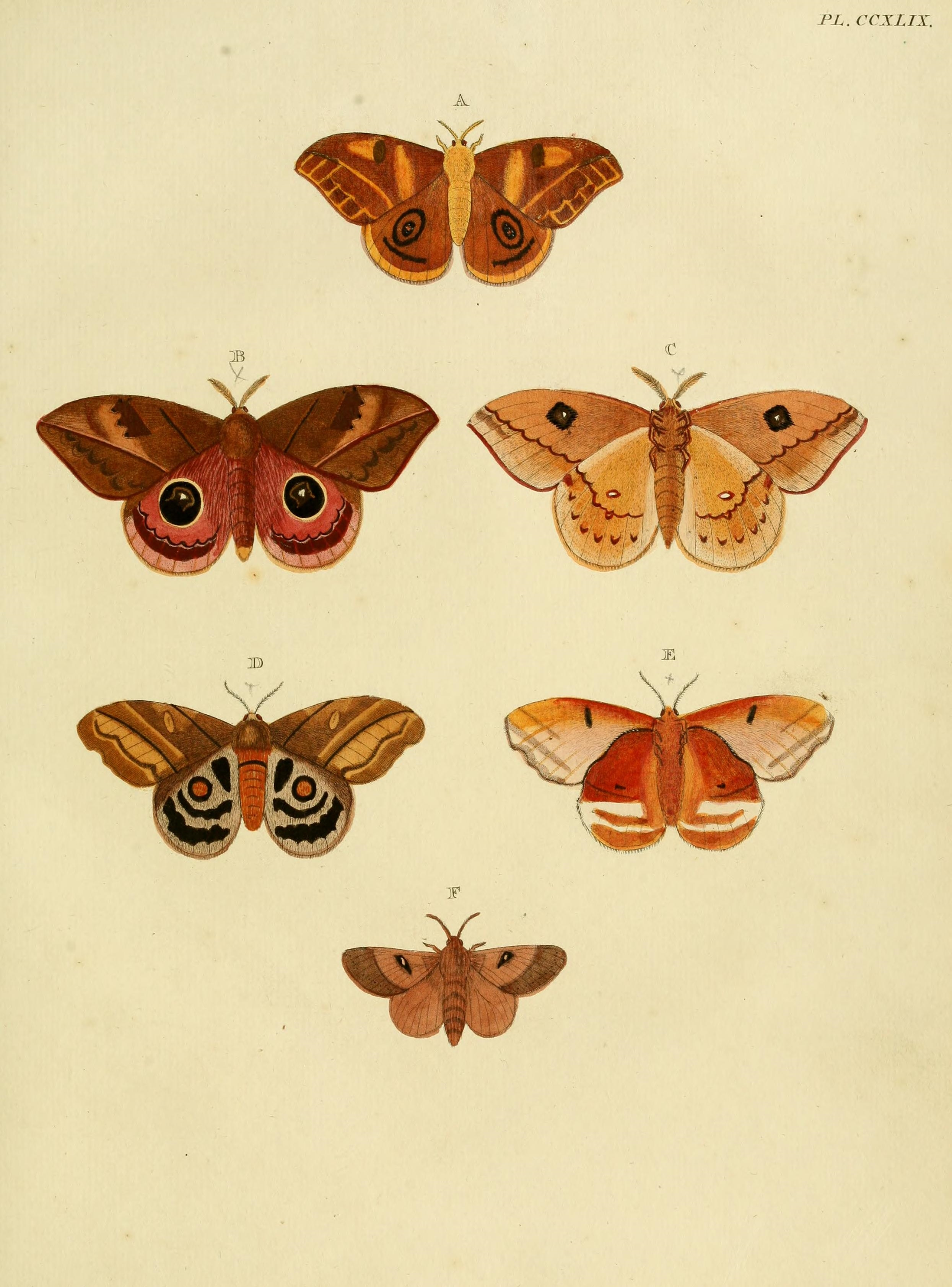 Plate CCXLIC A: "(Phalaena) Jucunda" ( = Automeris jucunda (Cramer, 1782), iconotype?), see The Global Lepidoptera Names Index, NHM and Funet. Photos at Barcode of Life. In Lepindex and Funet not related to this plate but to plate 356 B, C from volume 4. B, C: "(Phalaena) Irene" ( = Pseudautomeris irene (Cramer, [1779]), iconotype?), see Funet. Photos at Barcode of Life. D, E: "(Phalaena) Nausica" ( = Hyperchiria nausica (Cramer, [1779]), iconotype?), see Funet. Photos at Barcode of Life. In Dutch descr. and register spelled "Nauzica". F: "(Phalaena) Hyrtaca" ( = Metanastria hyrtaca (Cramer, [1779]), iconotype?), see Funet. Photos at Barcode of Life.